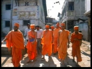 Bapa,Isnav